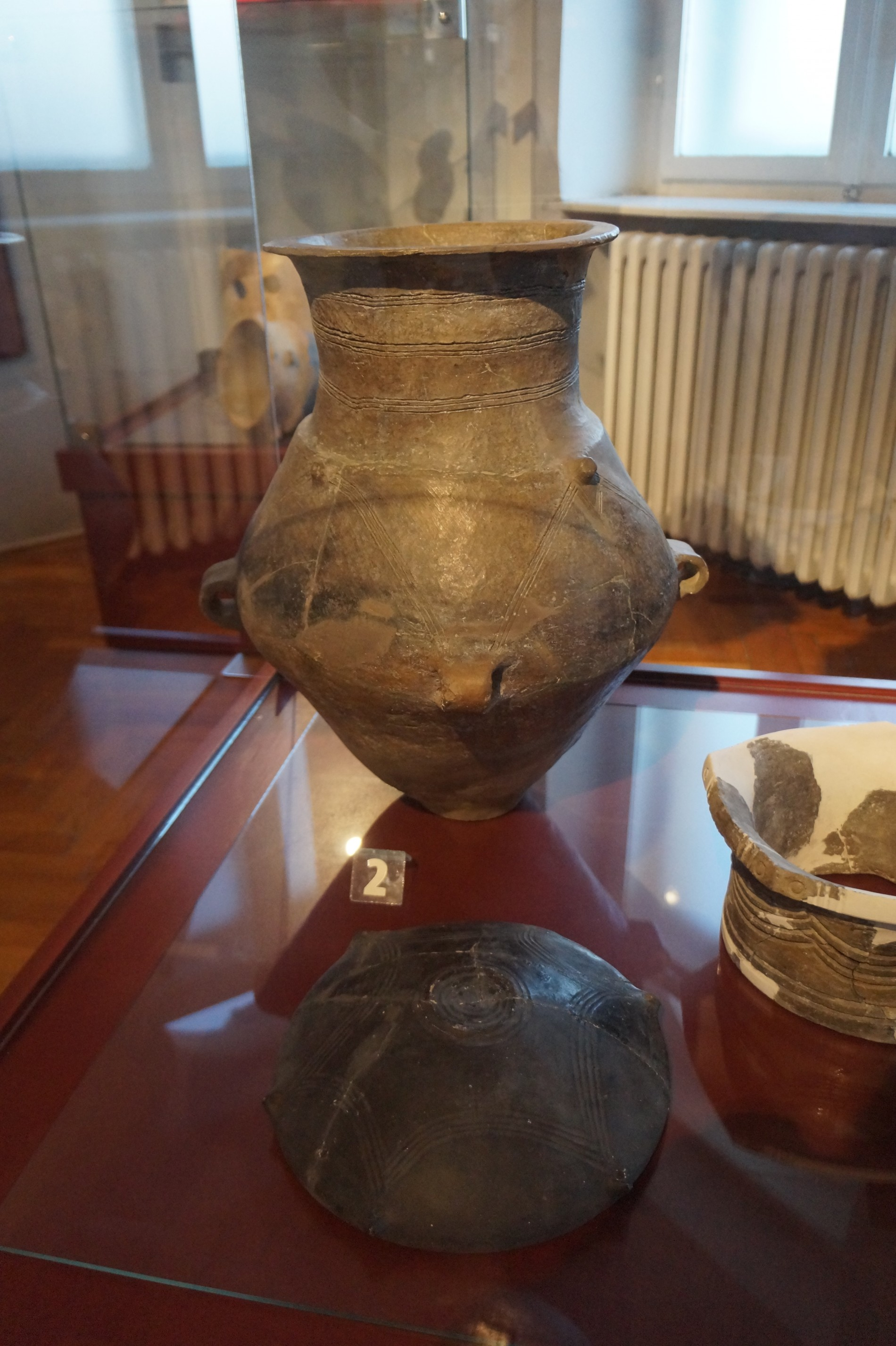 Bronze Age cabinet 03, museum Zrenjanin: Bronze Age urn and its lid, from locality Matejski Brod at Novi Bečej. Late Bronze Age, Belegiš 1 cultural group Српски (ћирилица): Урна и поклопац за урну. Локалитет Матејски Брод код Новог Бечеја (позно бронзано доба, Белегиш 1 култура)